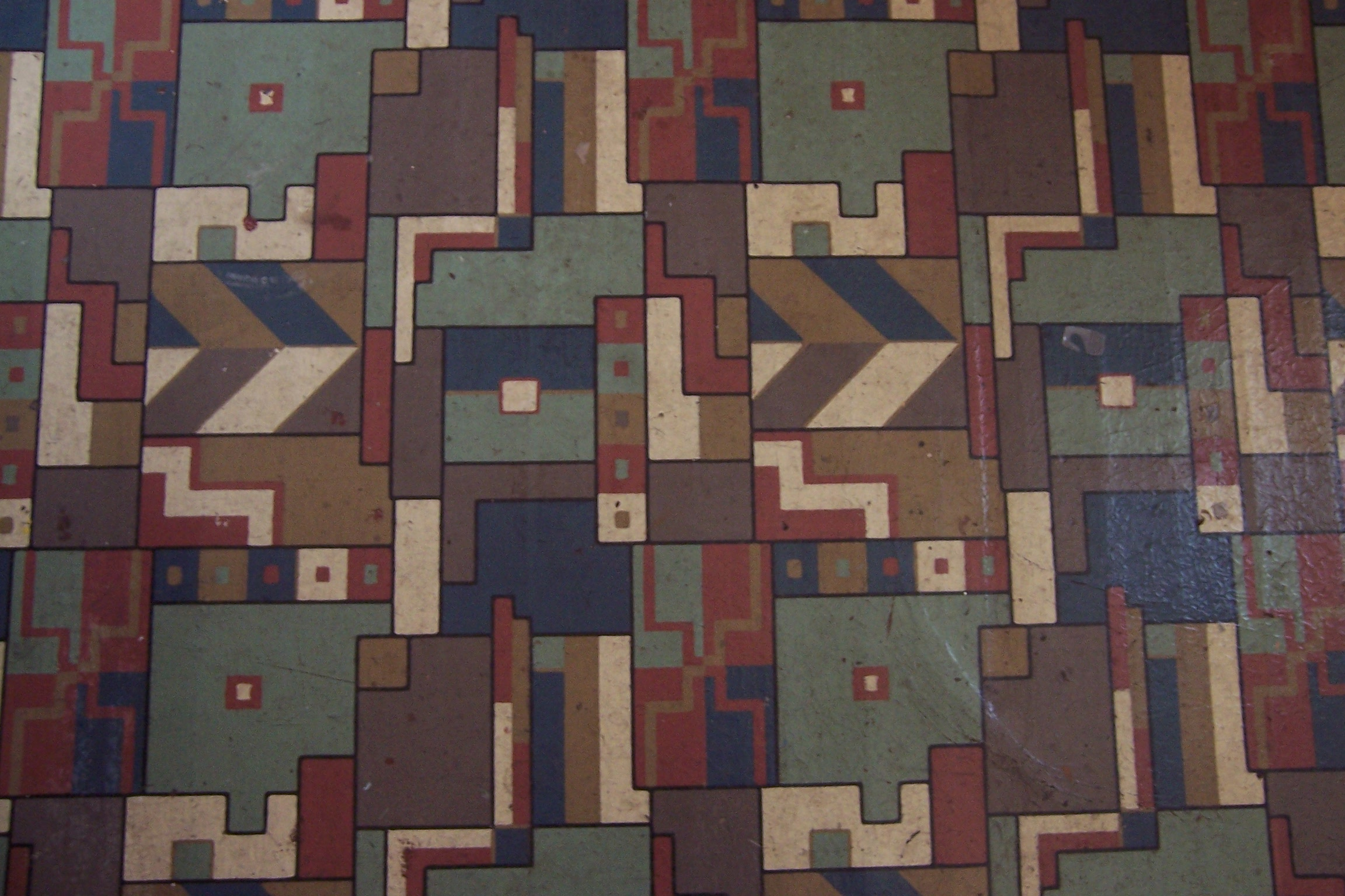 Geometric American Linoleum Design from c. 1950